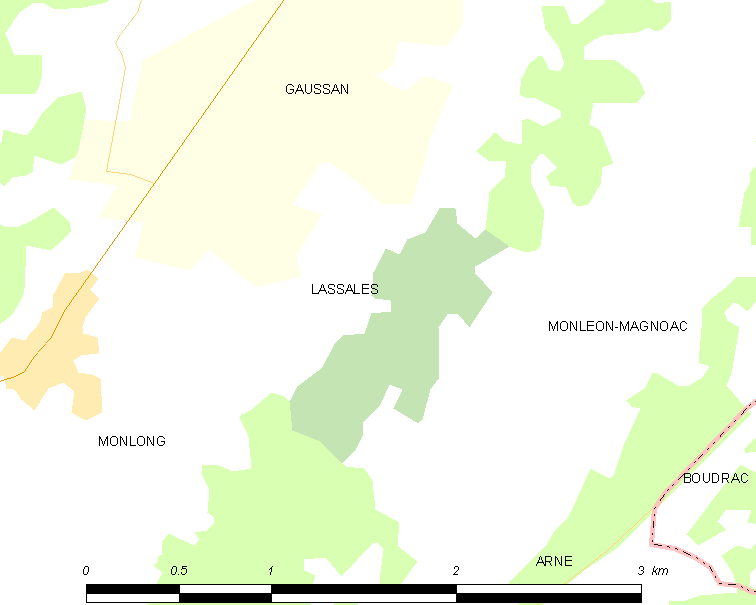 Map of French municipality